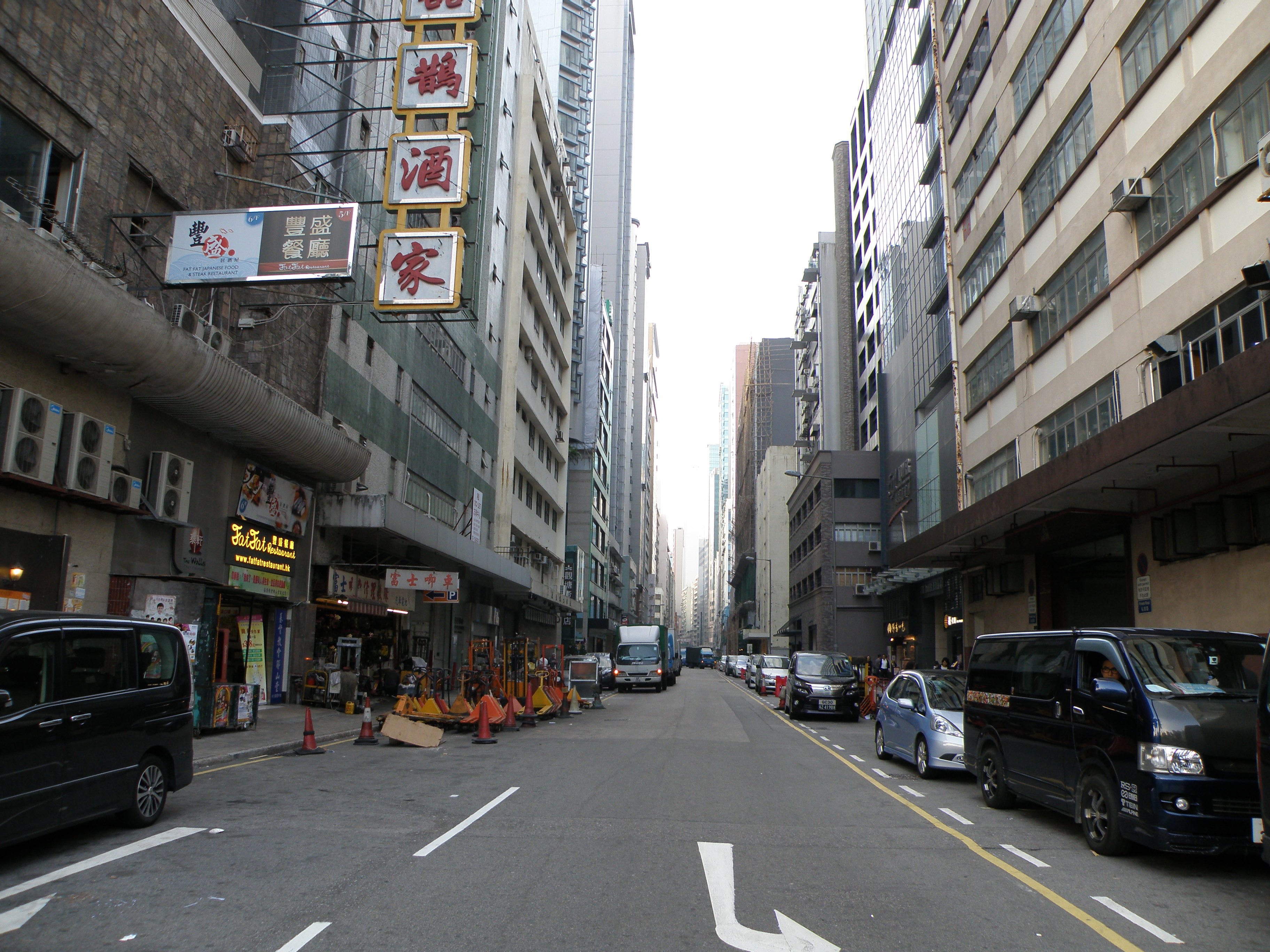 Hung To Road in Kwun Tong, Hong Kong.